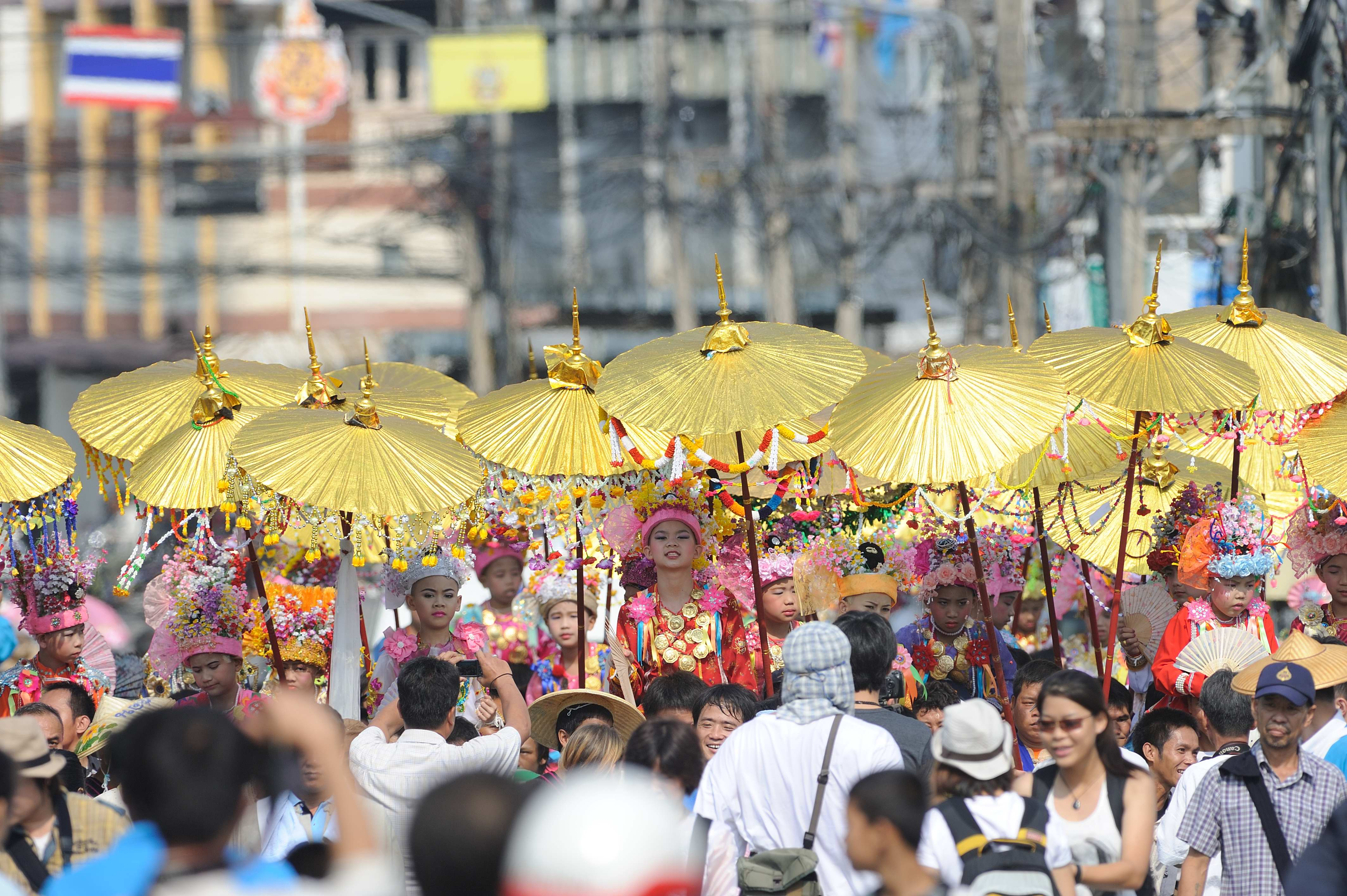 Poy Sarng Long is called in some areas as “Poy Look Kaew” (crystal strands) or “Poy Noi.” It is a cerebrating ceremony in the tradition of ordination of novices. Shan people call the person who is to be ordained as “Sarng Long.” - Poy Sarng Long tradition is organized in order to provide opportunity for children to study Dharma according to the teachings of the Buddha. It is believe that people involved will gain merit from this tradition. It is normally organized during the period of March-April of each year (During student summer vacation). Villagers make appointments among themselves to have their children to be ordained as novices on the same day. The children who will be ordained as novices are dressed and ornamented with invaluable ornaments. The children are ordained at the temples where the sponsors have faith. -The process of Poy Sarng Long tradition comprises 3 days. The first day is called “Hae Sarng Long Day.” On this day all the novices to be ordained will join the ceremony of Hair-shaving but not shaving the eyebrow (According to the belief of Myanmar they do not shave the eyebrow). They will put on makeup and dress beautifully according to the tradition. At this stage the novices who will be ordained are called “Sarng Long.” They will be taken to meet their respectful senior relatives to receive the precepts and blessed from them. The second day is called “Hae Krua Loo Day.” Sarng Long (the novices to be ordained) will be brought to parade in public. Sarng Long may ride a horse or if there is no horse the Sarng Long, he will ride on the shoulder of a man. In the evening there will be a ceremony of heart for Sarng Long and there are various entertainments according to the Shan tradition at night. The third day is called “Kharm Sarng Day.” It is the day of the novices ordination which takes place in the temple.